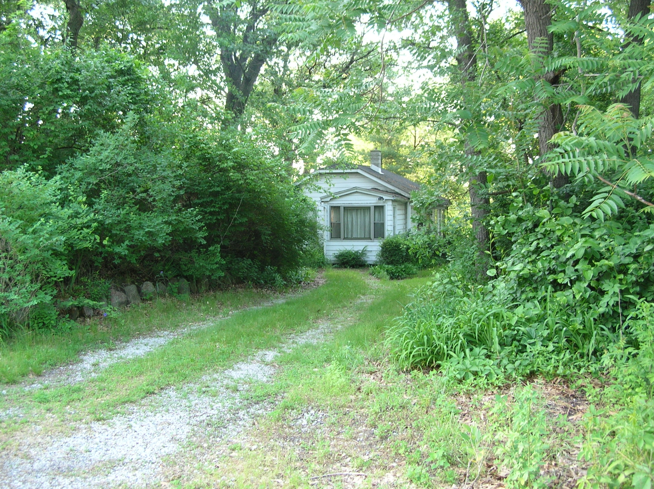 House where Nelson Algren summered in Miller Beach, sometimes accompanied by Simone de Beauvoir, on Forest Avenue just south of the Miller lagoon.